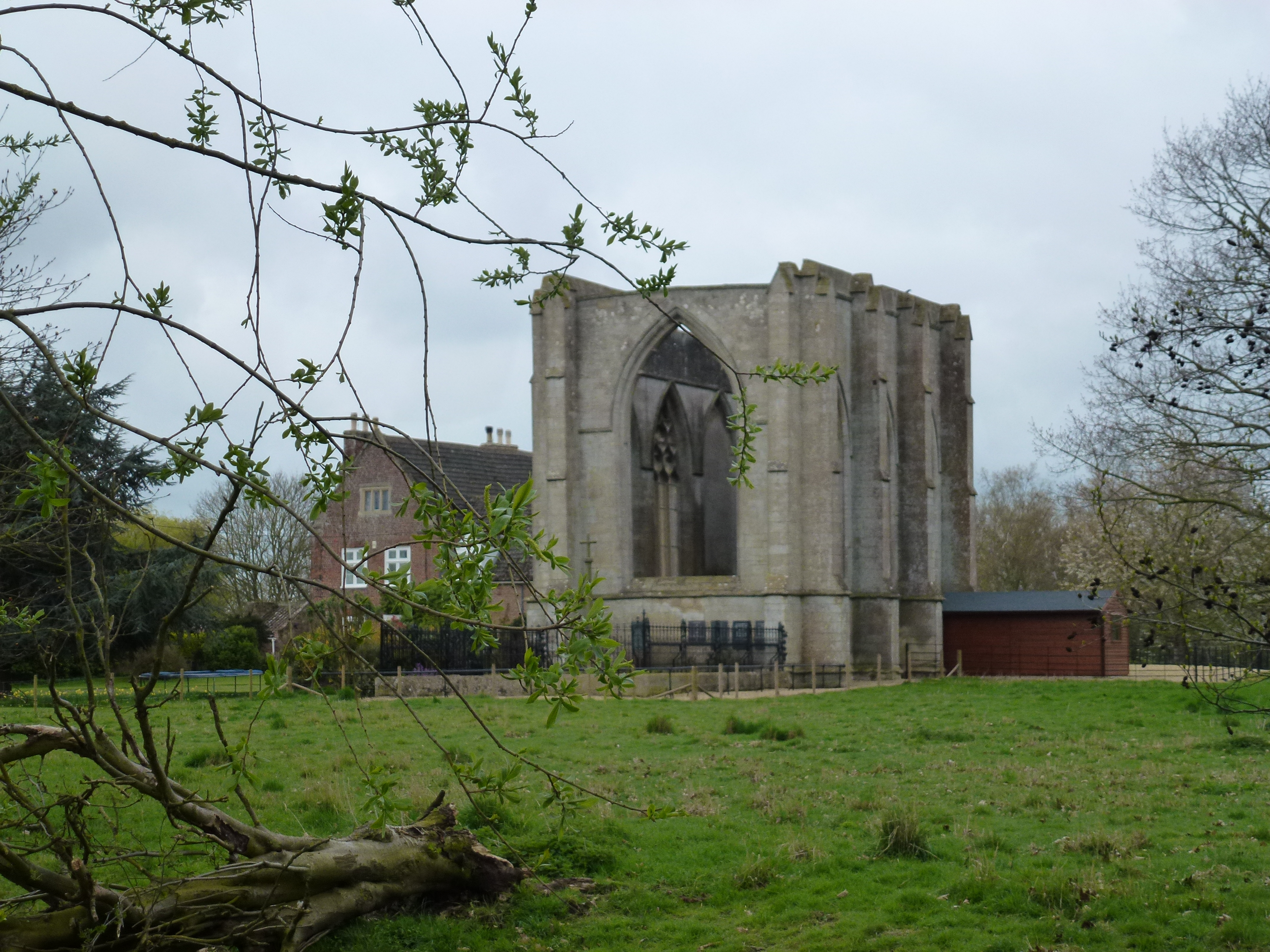 The ruin of St Nicholas' Chapel, Wykeham, near Weston, Lincolnshire